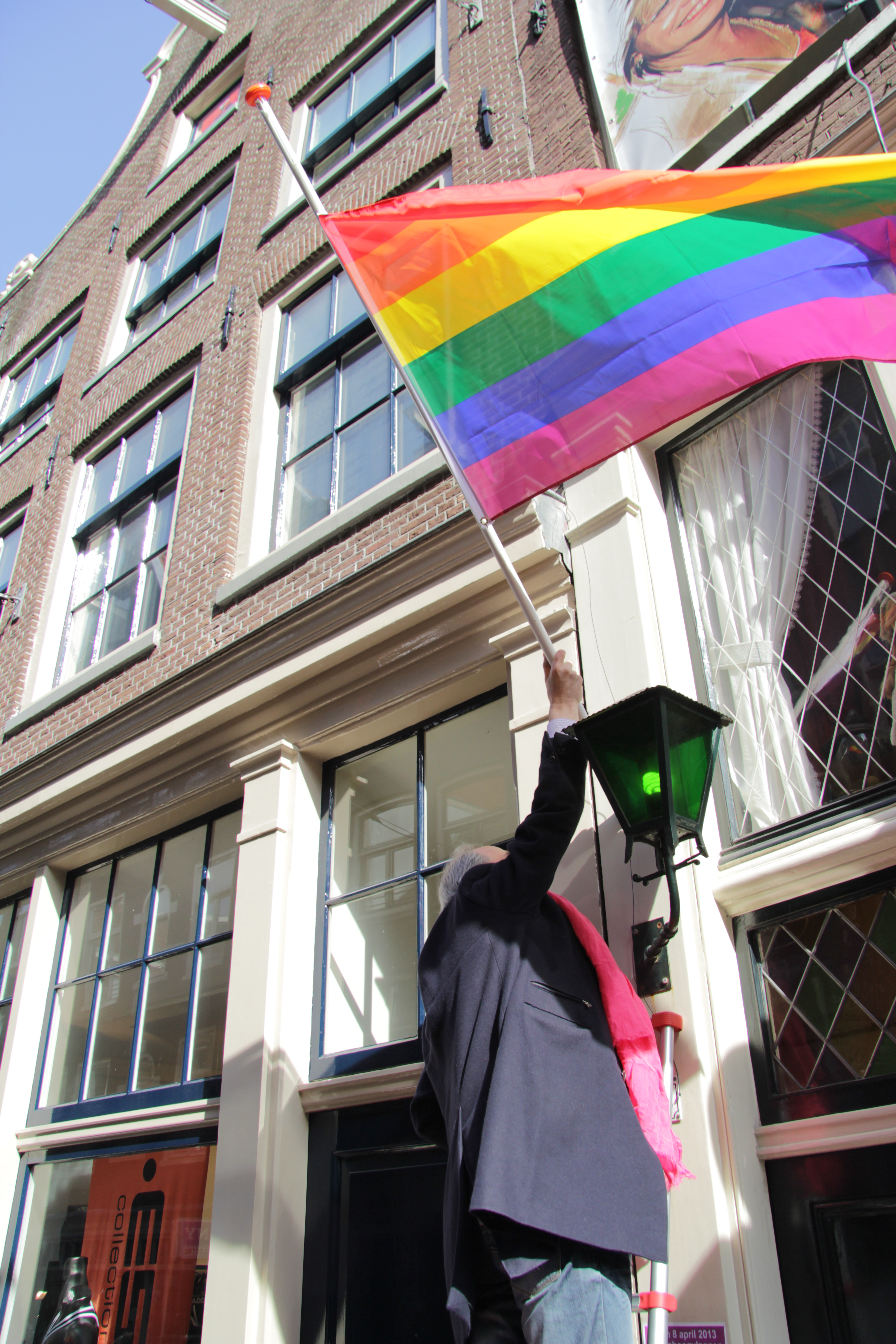 The rainbow flag at half staff because of Putin's visit to Amsterdam. Location is the LGBT Café 't Mandje at Zeedijk 63.